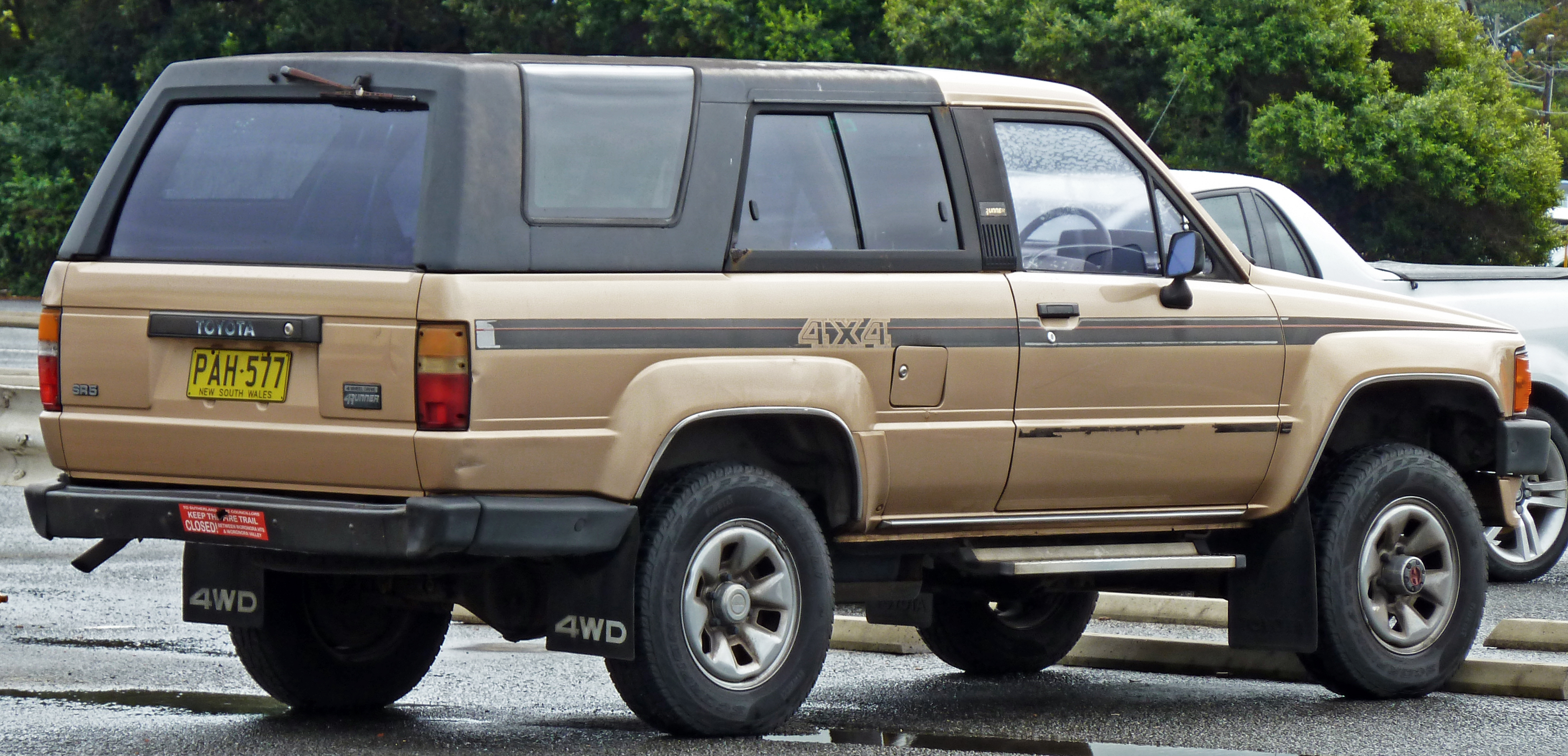 1988 Toyota Hilux 4Runner SR5 wagon. Photographed in Sans Souci, New South Wales, Australia.